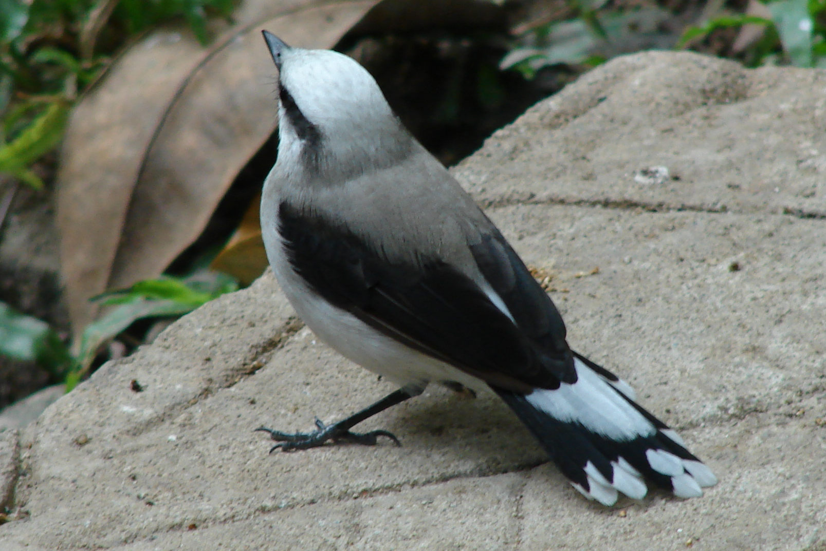 Fluvicola nengeta; (en)=Masqued Water Tyrant; (pt-Br)=Lavadeira-mascarada. Brazilian bird.This one was pictures at Passeio Publico, Rio de Janeiro city